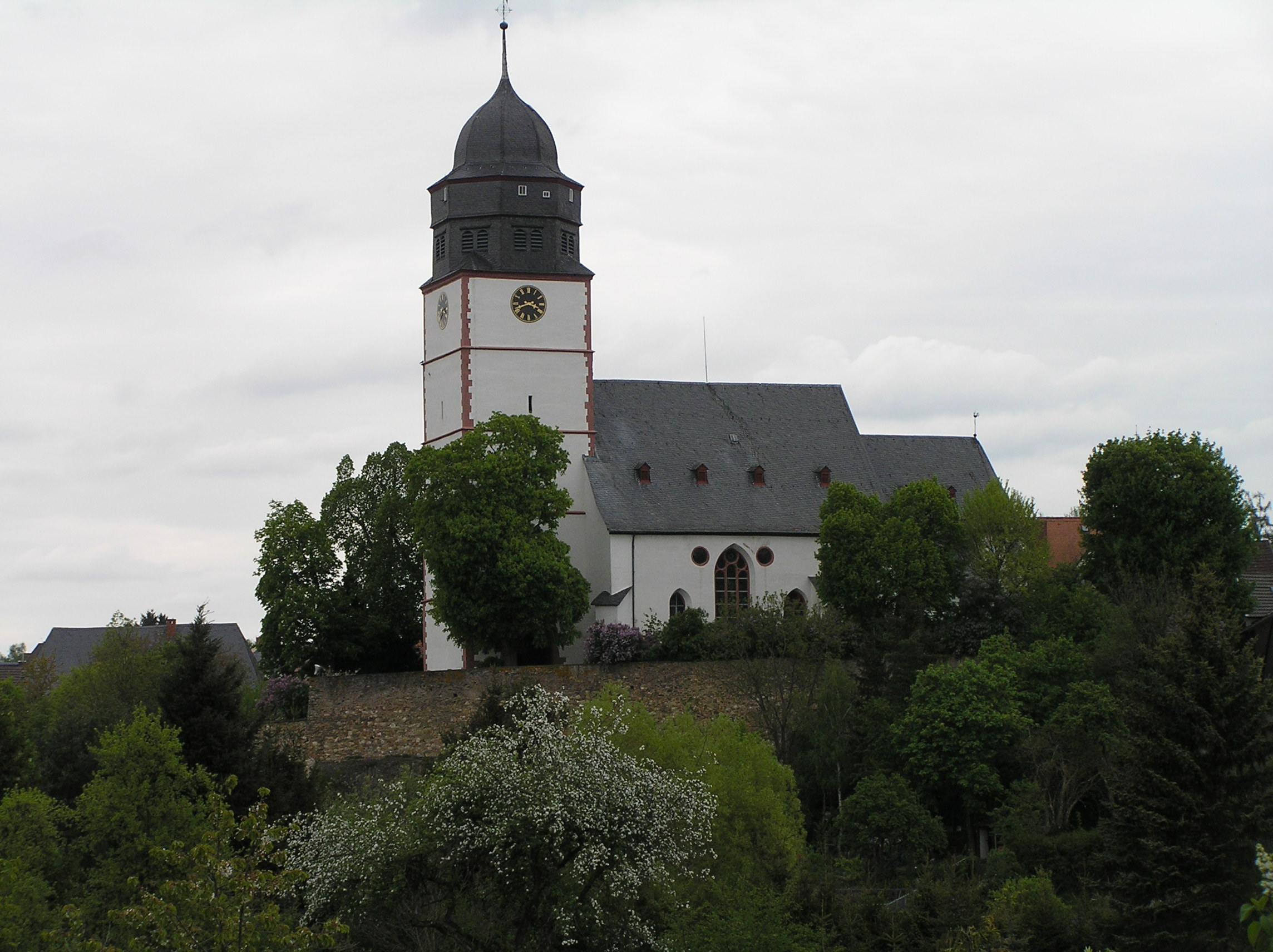 Laurentiuskirche, Usingen, Germany